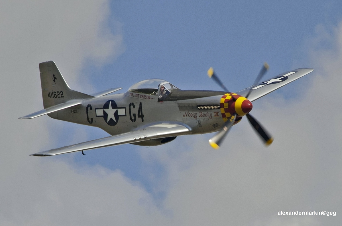 Untitled (Amicale Jean-Baptiste Salis) North American P-51D Mustang F-AZSB